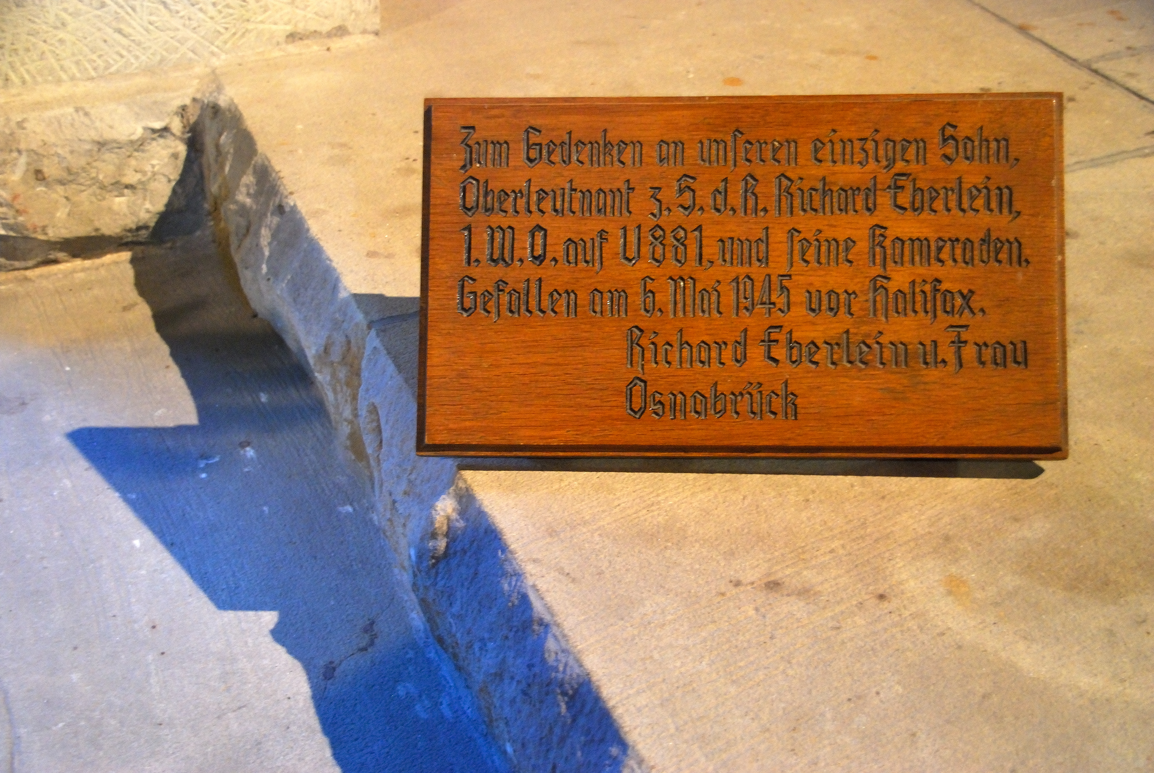 Memorial plaque remembering the death of a young naval soldier days before Nazi-Germany surrendered.